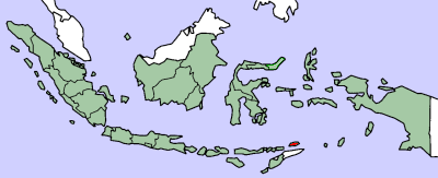 Location map for island of Wetar in Indonesia. From Image:IndonesiaNorthSulawesi.png, Uploaded by User:Morwen. edited by J. Patrick Fischer, second edition